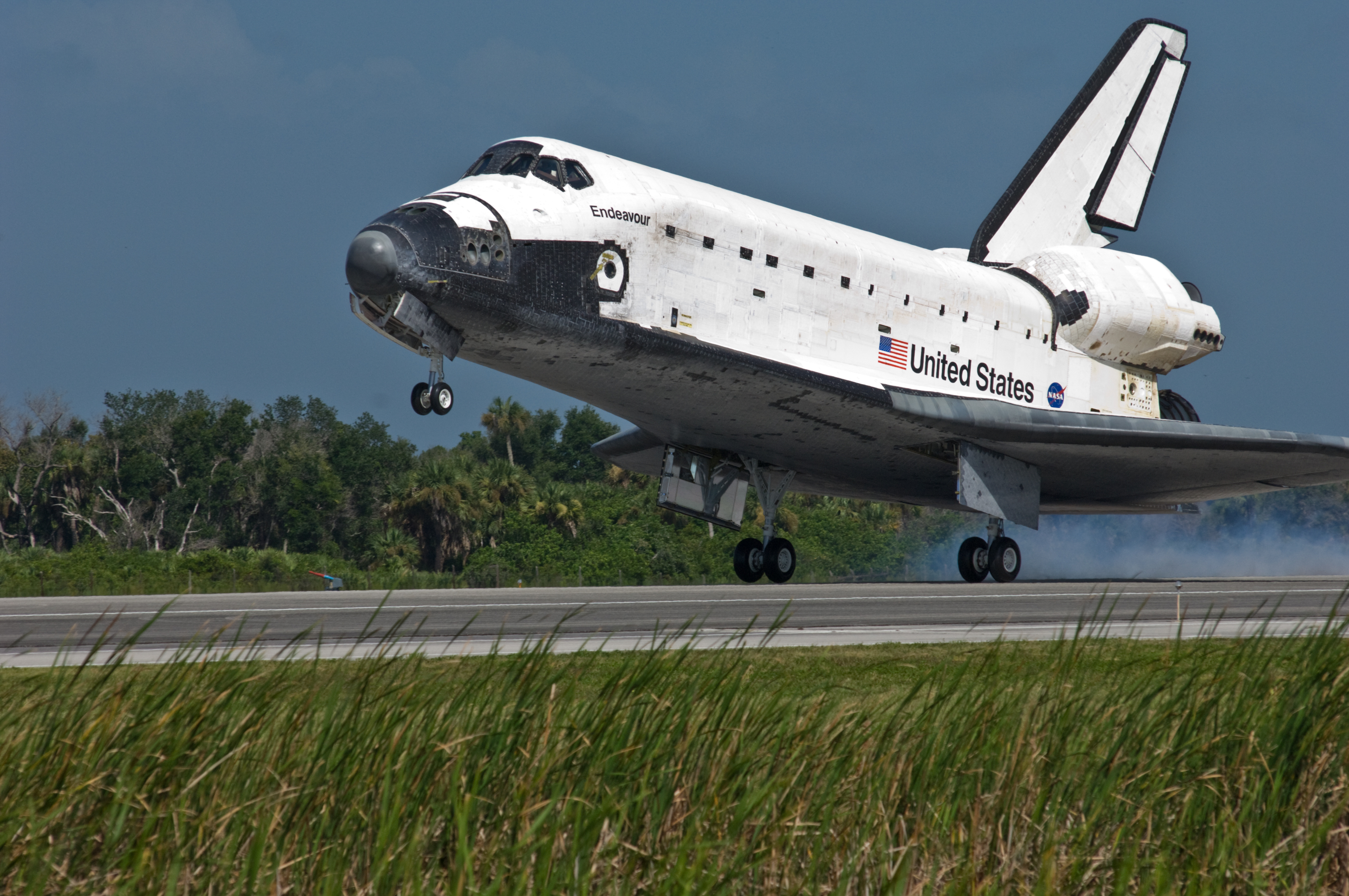 CAPE CANAVERAL, Fla. – Space shuttle Endeavour kicks up dust as it touches down on Runway 15 at NASA's Kennedy Space Center in Florida to complete the 16-day, 6.5-million mile journey on the STS-127 mission to the International Space Station. Endeavour landed on orbit 248. Main gear touchdown was at 10:48:08 a.m. EDT. Nose gear touchdown was at 10:48:21 a.m. and wheels stop was at 10:49:13 a.m. Endeavour delivered the Japanese Experiment Module's Exposed Facility and the Experiment Logistics Module-Exposed Section to the International Space Station. The mission was the 29th flight to the station, the 23rd flight of Endeavour and the 127th in the Space Shuttle Program, as well as the 71st landing at Kennedy.